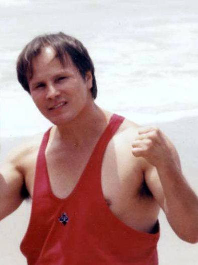 Benny Uruquidez was my trainer in his special invitational class in North Hollywood, Ca on Saturday mornings. The picture was taken after an outdoors class w. training on the beach in Malibu.